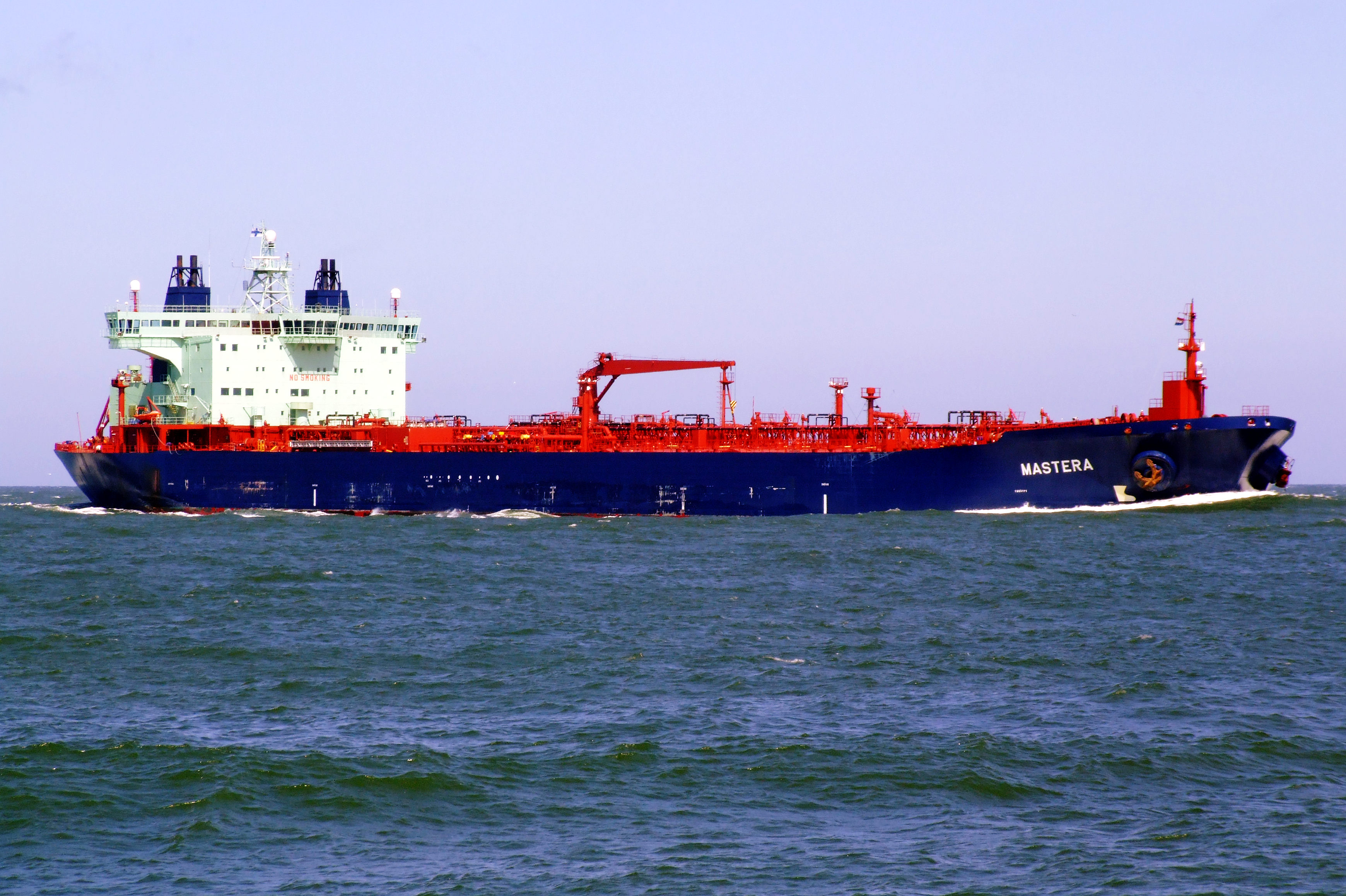 MT Mastera in Rotterdam harbour. IMO Number: 9235892 MMSI Number: 230945000 Callsign: OJKE Length: 252 m Beam: 44 m